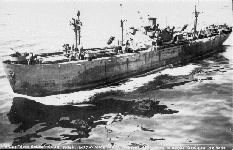 John Burke on May 10th 1944 at position 50°50'N 130°127'W north west of Vancouver Island, British Columbia, Canada. Owned by U.S.Department of Commerce and operated by Northland Transportation Co.under WSA Service Agreement Form GAA (General Agent Agreement).